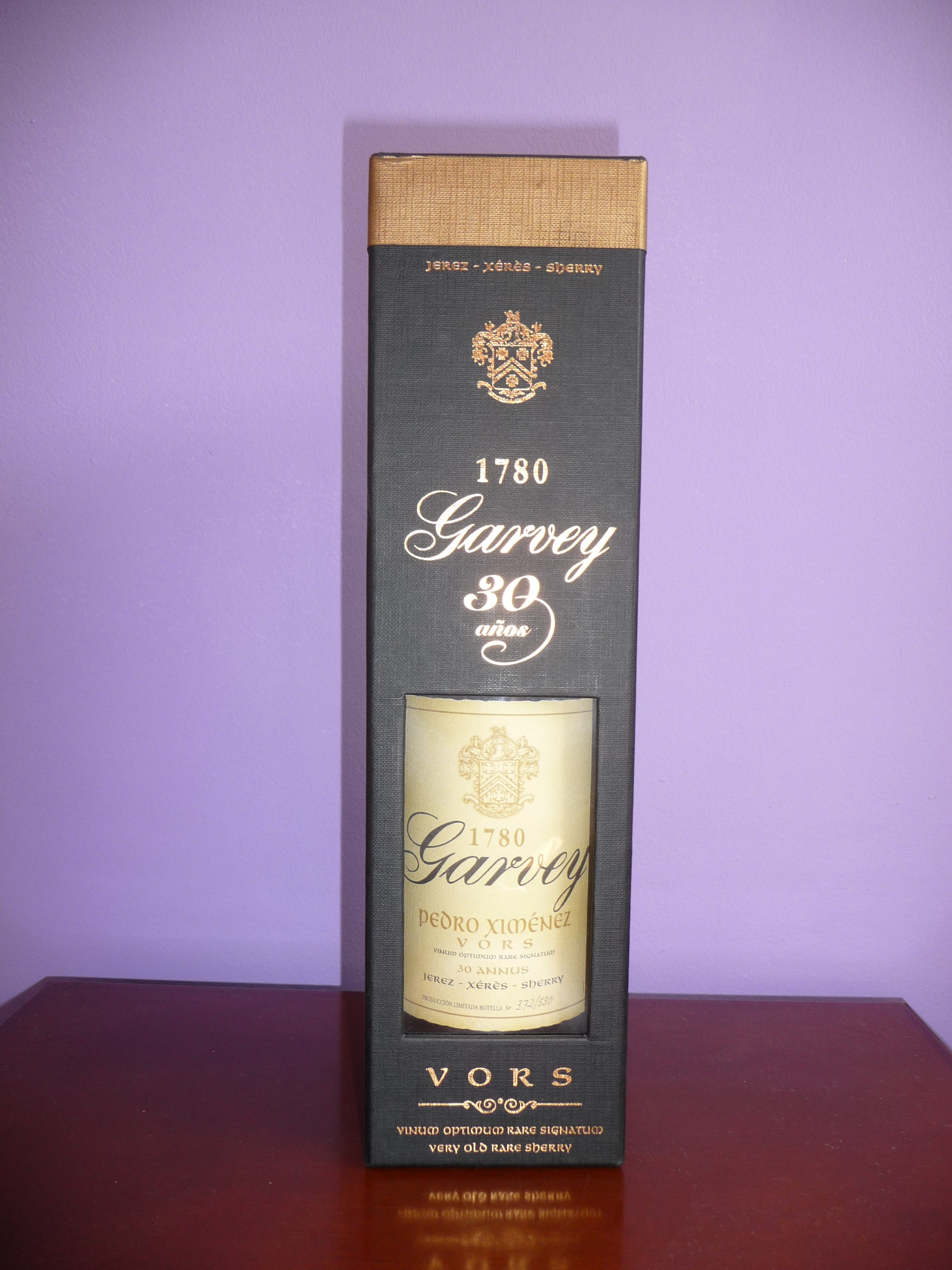 Very Old Rare Sherry, Pedro Ximenez by Garvey. Jerez de la Frontera (Andalusia, Spain)